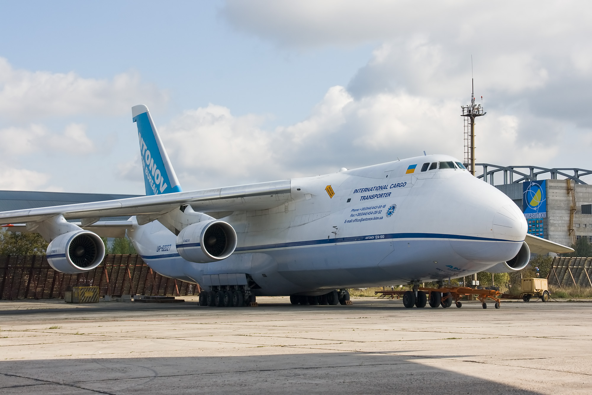 Antonov An-124 "Ruslan"